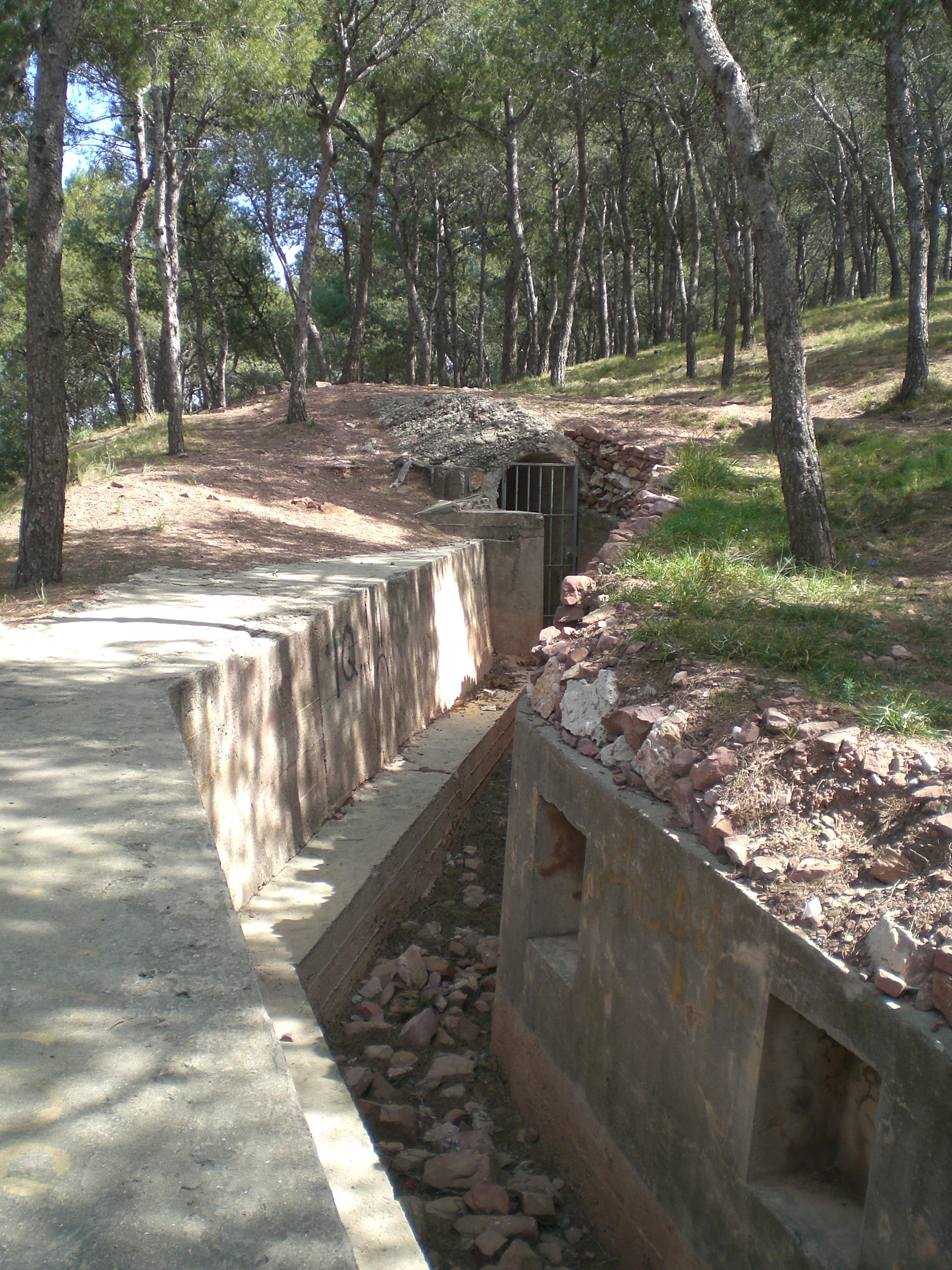 Trench and tunnel entrance Spanish Civil War fortifications, El Puig, Valencia